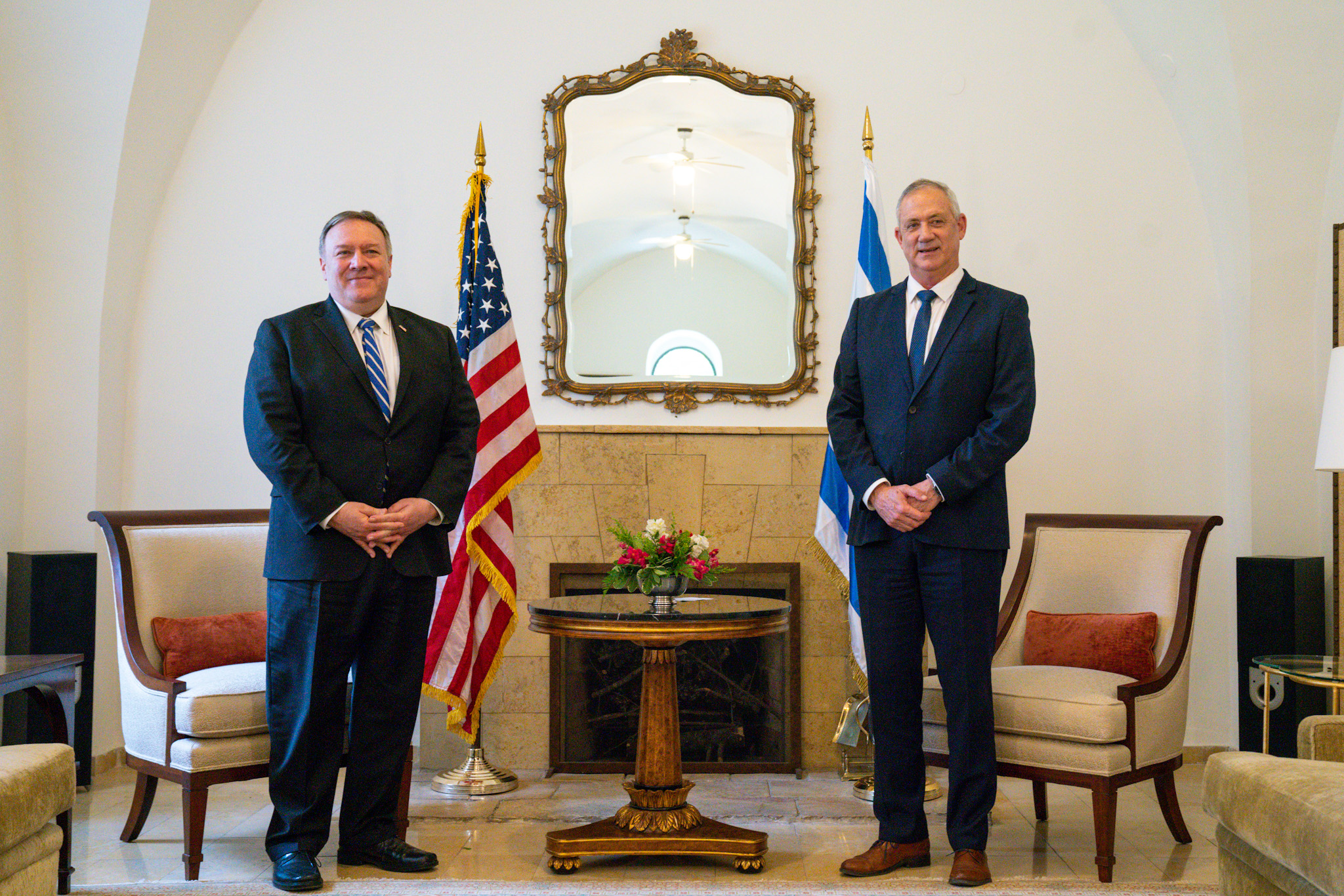 U.S. Secretary of State Michael R. Pompeo meets with Israeli Speaker of the Knesset Benjamin Gantz, in Israel on May 13, 2020. [State Department Photo by Ron Przysucha/ Public Domain]